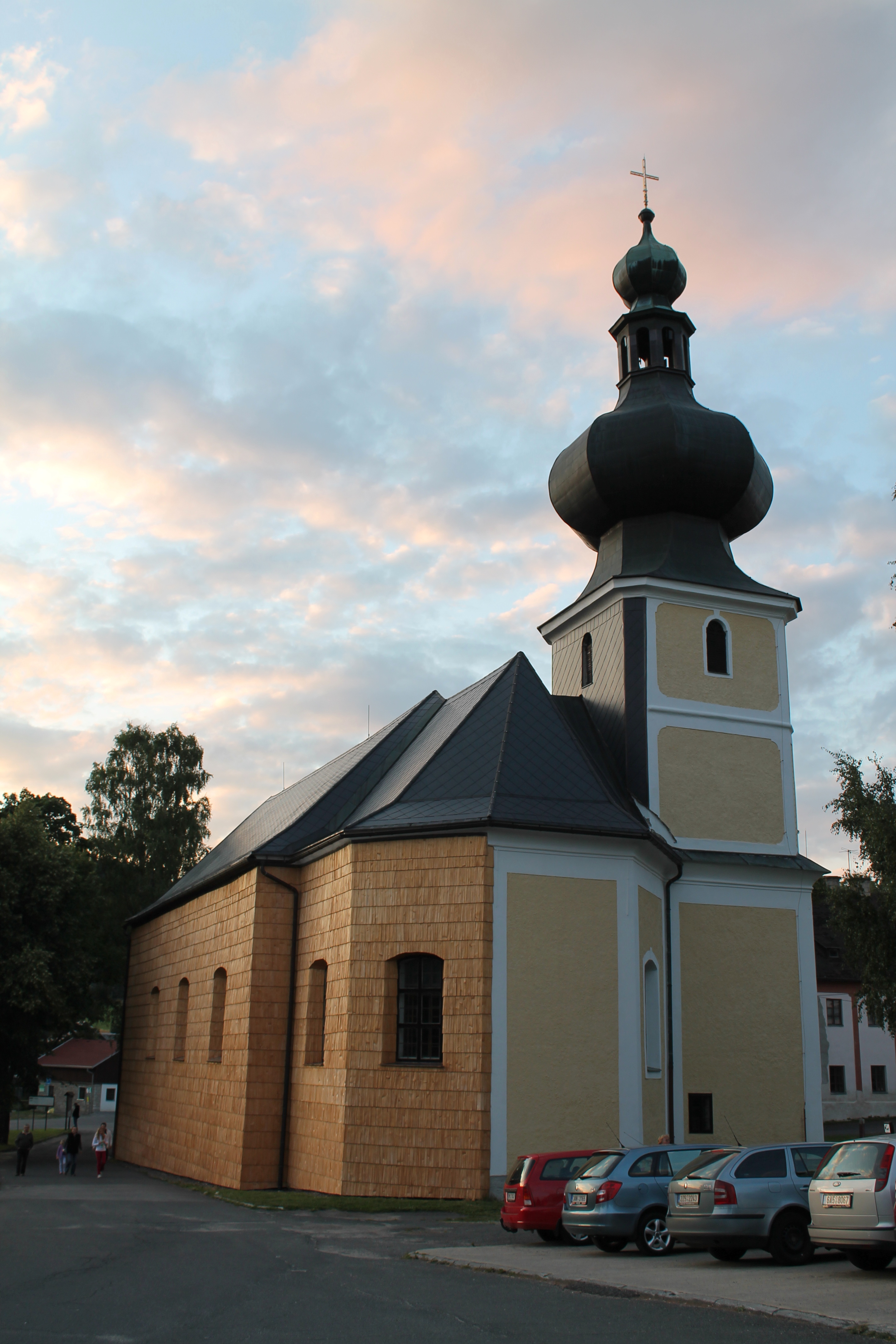 Church of Holy Trinity, Srní, Klatovy District, Czech Republic - Google Maps - Google Earth